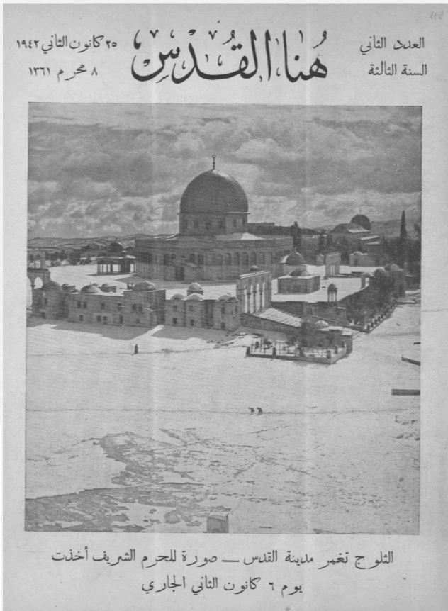 pre-1948 Palestinian magazine